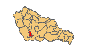 Location of municipality inside Međimurje County